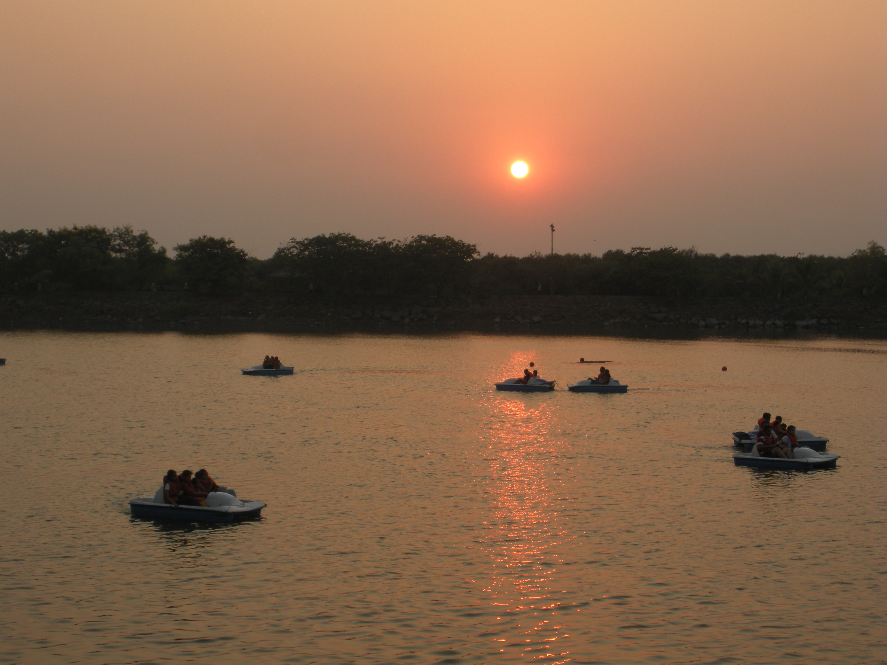 Paddle boating at Sagar Vihar park near Vashi, Mumbai